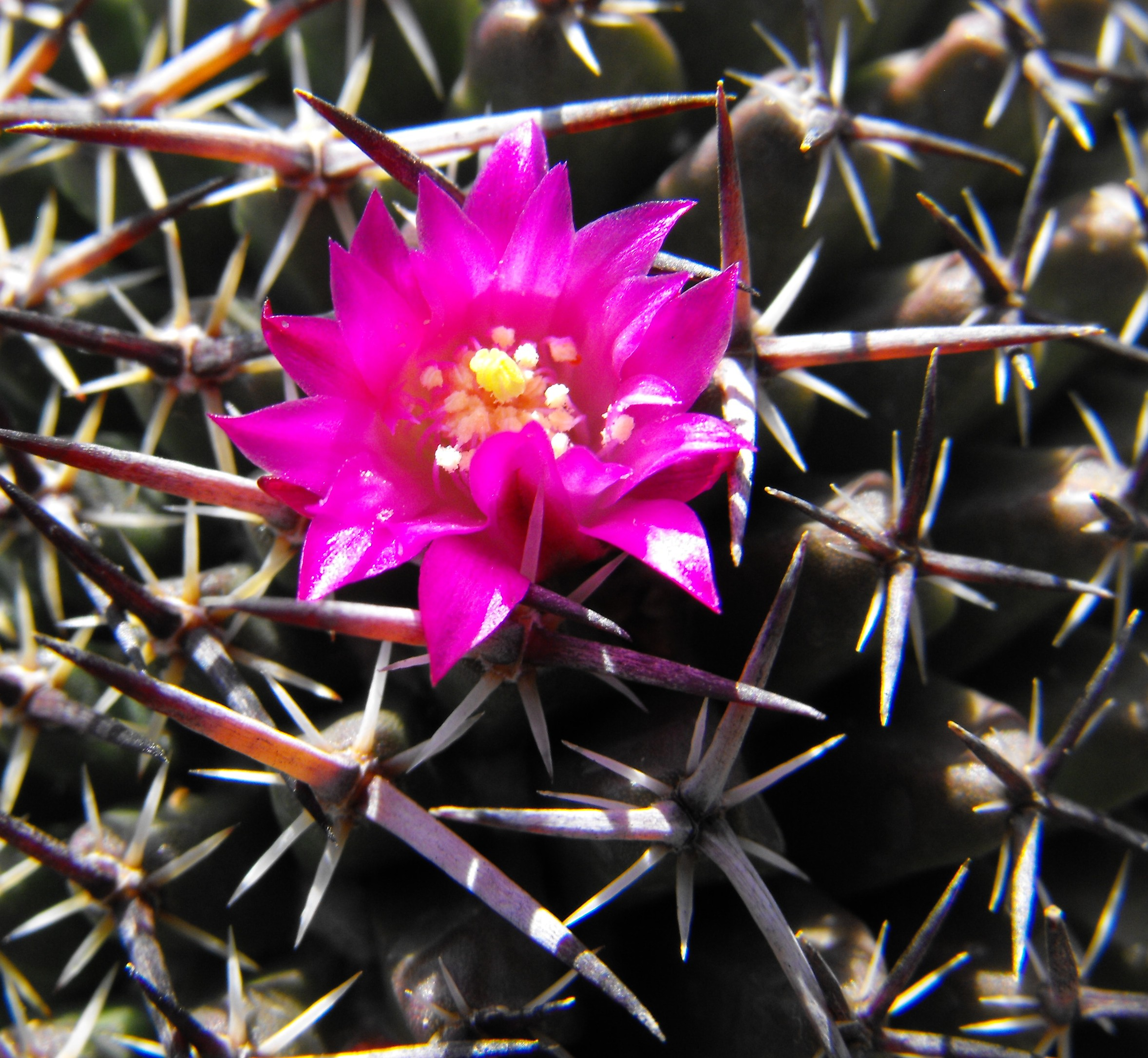 Mammillaria mystax at the Huntington Library & Botanical Gardens in San Marino, California, USA. Identified by sign as Mammillaria casoi.